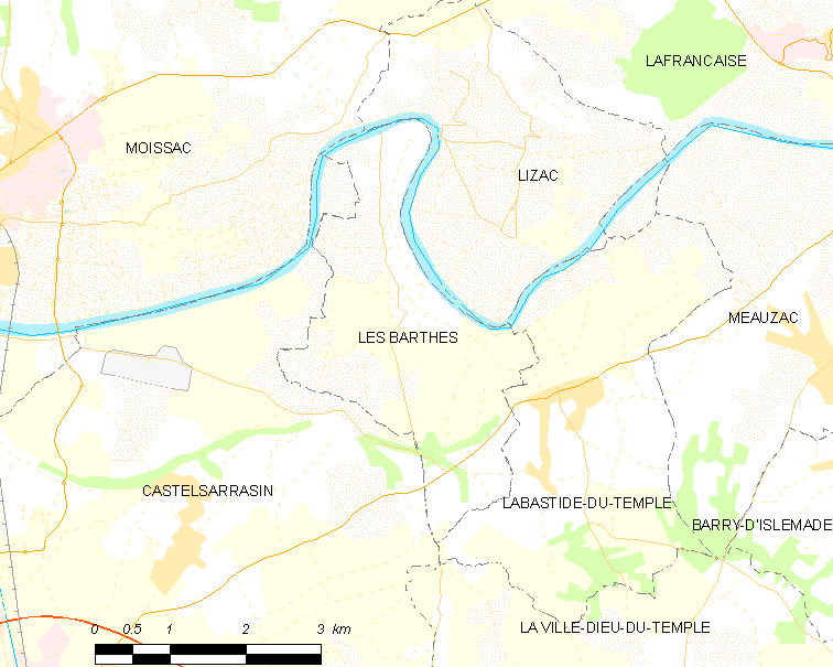 Map of French municipality Les Barthes